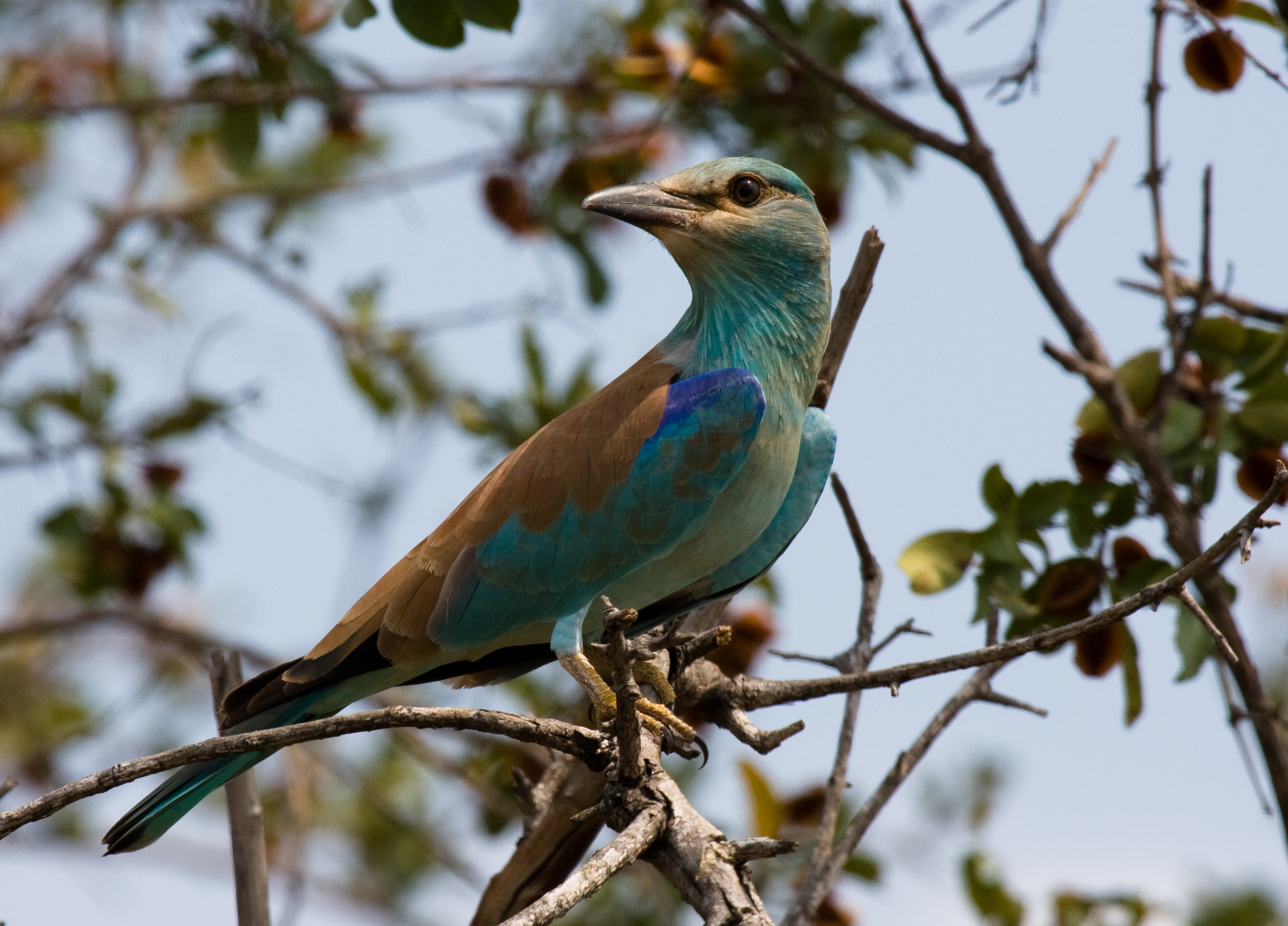 An immature European Roller at Kruger National Park, South Africa.